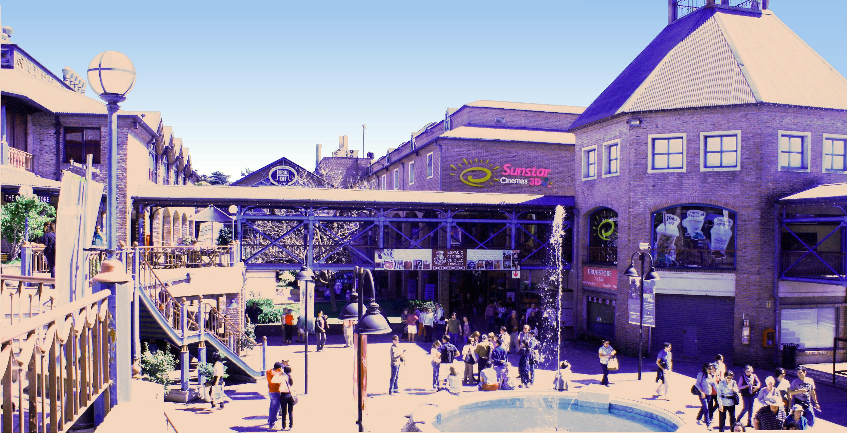 The San Isidro Station and Shopping Center, Tren de la Costa Line (north of Buenos Aires), Argentina.